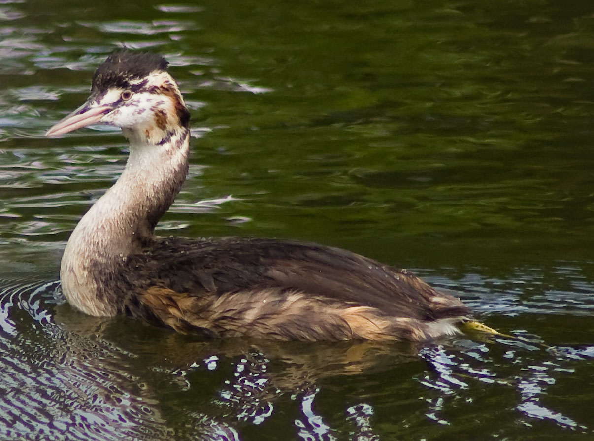 Great Crested Grebe, waterbird